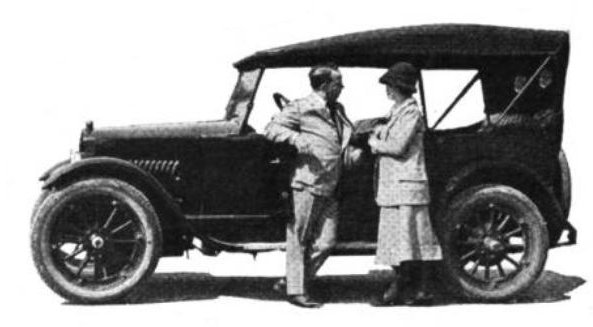 Photo is of a 1923 model Coats Steam Car from page 909 of the cited journal From Google Books archive: Title Illustrated world, Volume 38 Publisher R.T. Miller, 1922 Original from the University of Michigan Digitized Dec 12, 2008